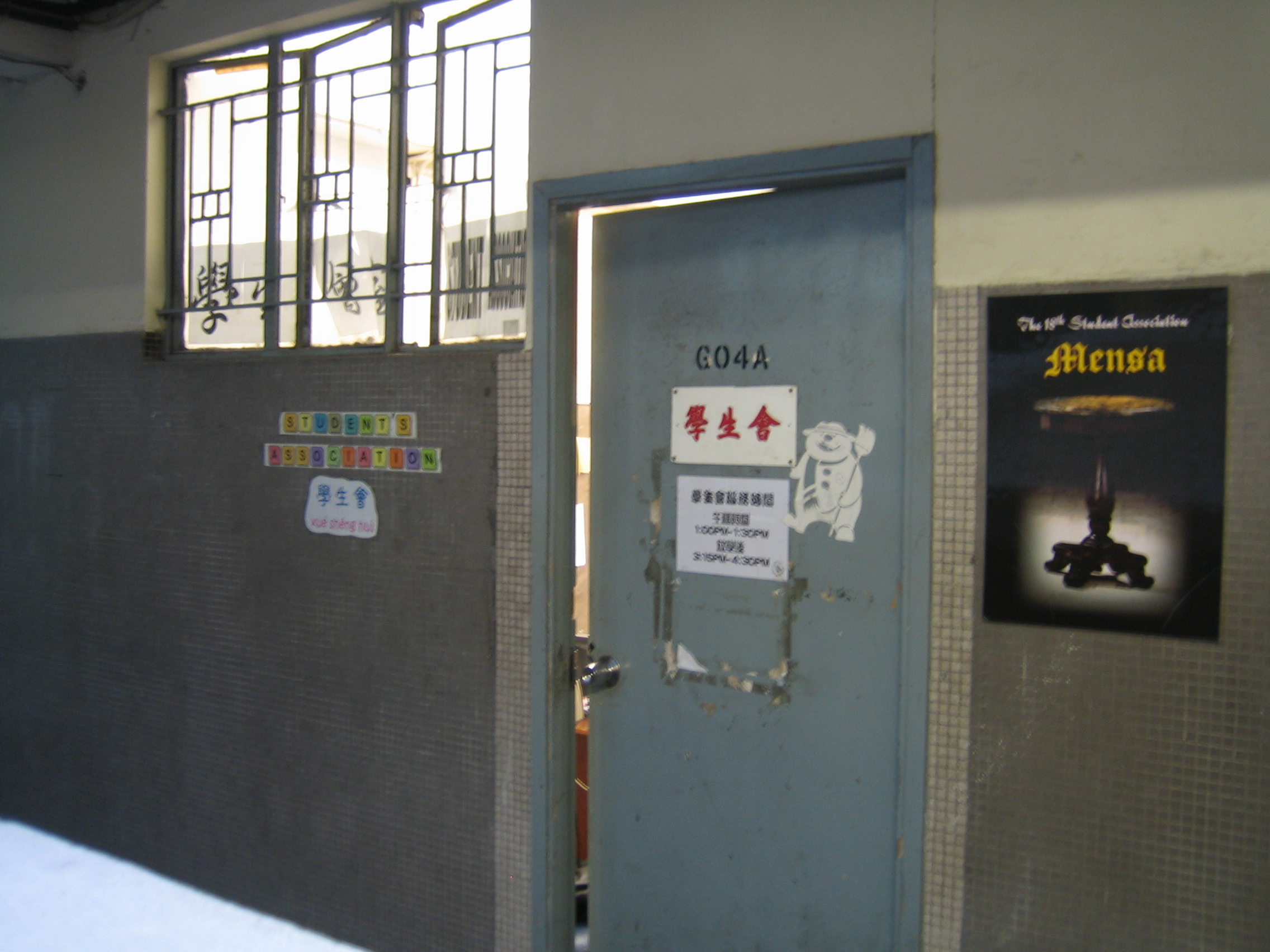 This image is the Student Association Room of SJACS campus, Hong Kong. If you have any questions about the licensing (like cc-by-sa, GFDL), or you want to republish the image without using the licensing shown as below, you are welcome to leave a message on the User Talk Page of my Chinese Wikipedia account. 中文（香港）: 這照片是香港九龍聖若瑟英文中學現有校舍學生會室。 如你對這照片版權許可協議 (例cc-by-sa, GFDL) 有疑問，或你想把照片不用以下的版權協議轉載，歡迎你到我在中文維基百科的用戶對話頁留言。